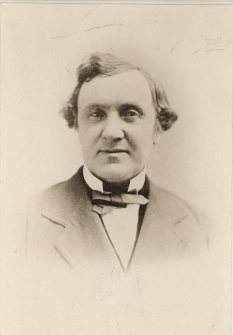 portrait of Lewis P. Fisher